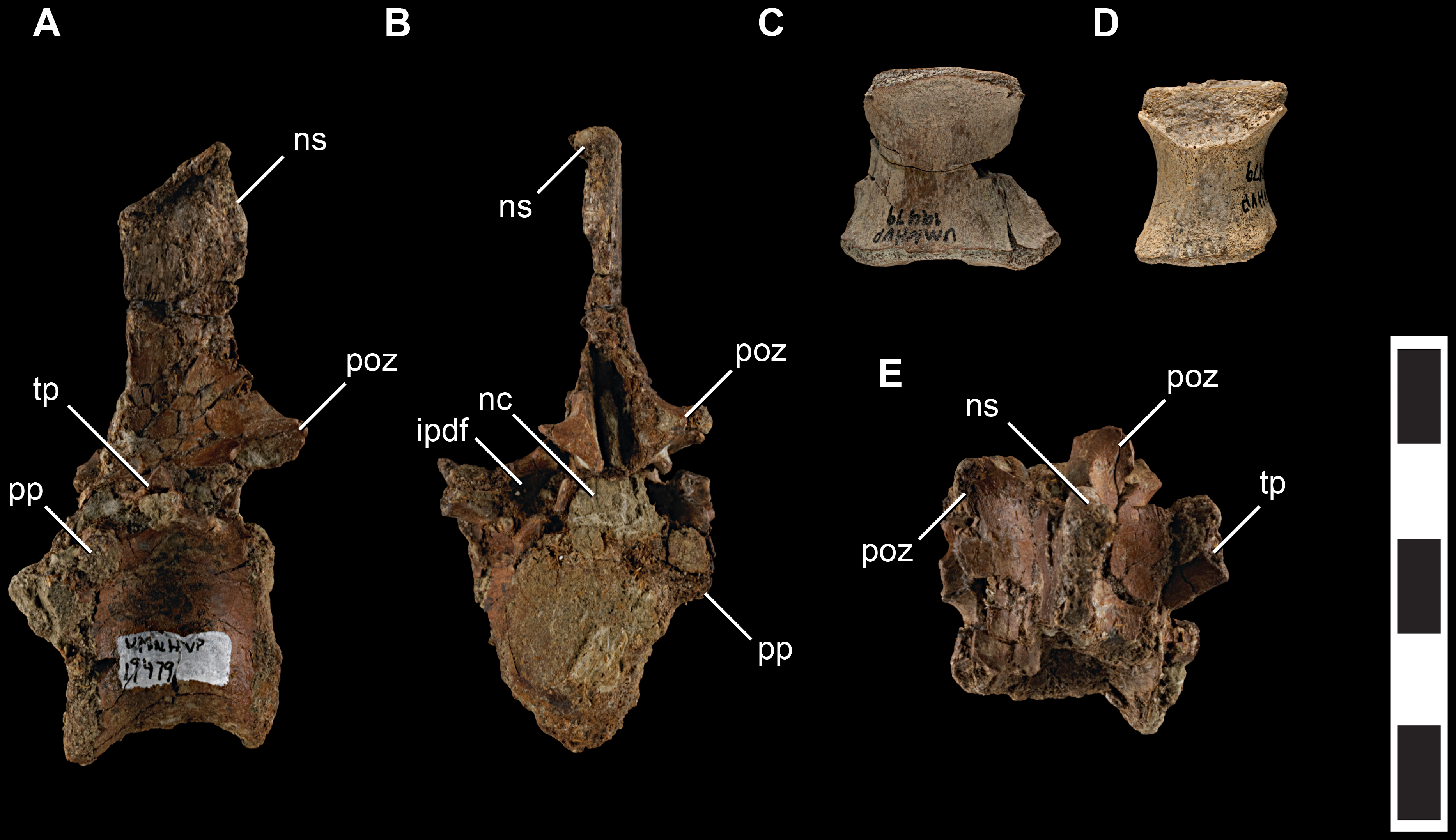 Axial elements of Talos sampsoni (UMNH VP 19479). Dorsal vertebra in left lateral (A), caudal (B), and dorsal (E) views; sacral centrum in ventral view (C), and dorsal centrum in ventral view (D). Abbreviations: ipdf, infrapostzygapophyseal fossa; nc, neural canal; ns, neural spine; poz, postzygapophysis; pp, parapophysis; tp, transverse process. Scale bar equals 5 cm.